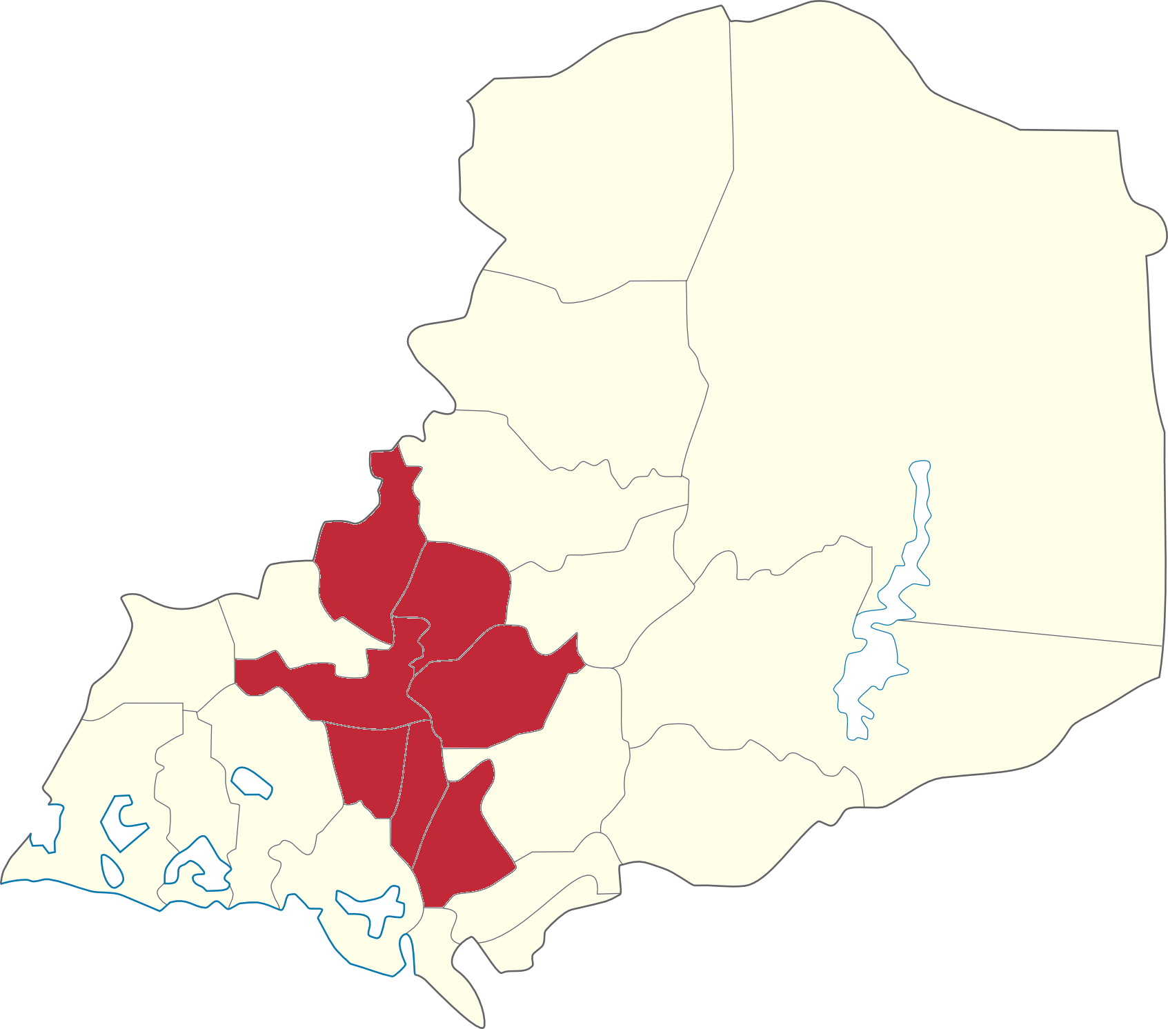 Location of 2nd Legislative district of Bulacan, Philippines